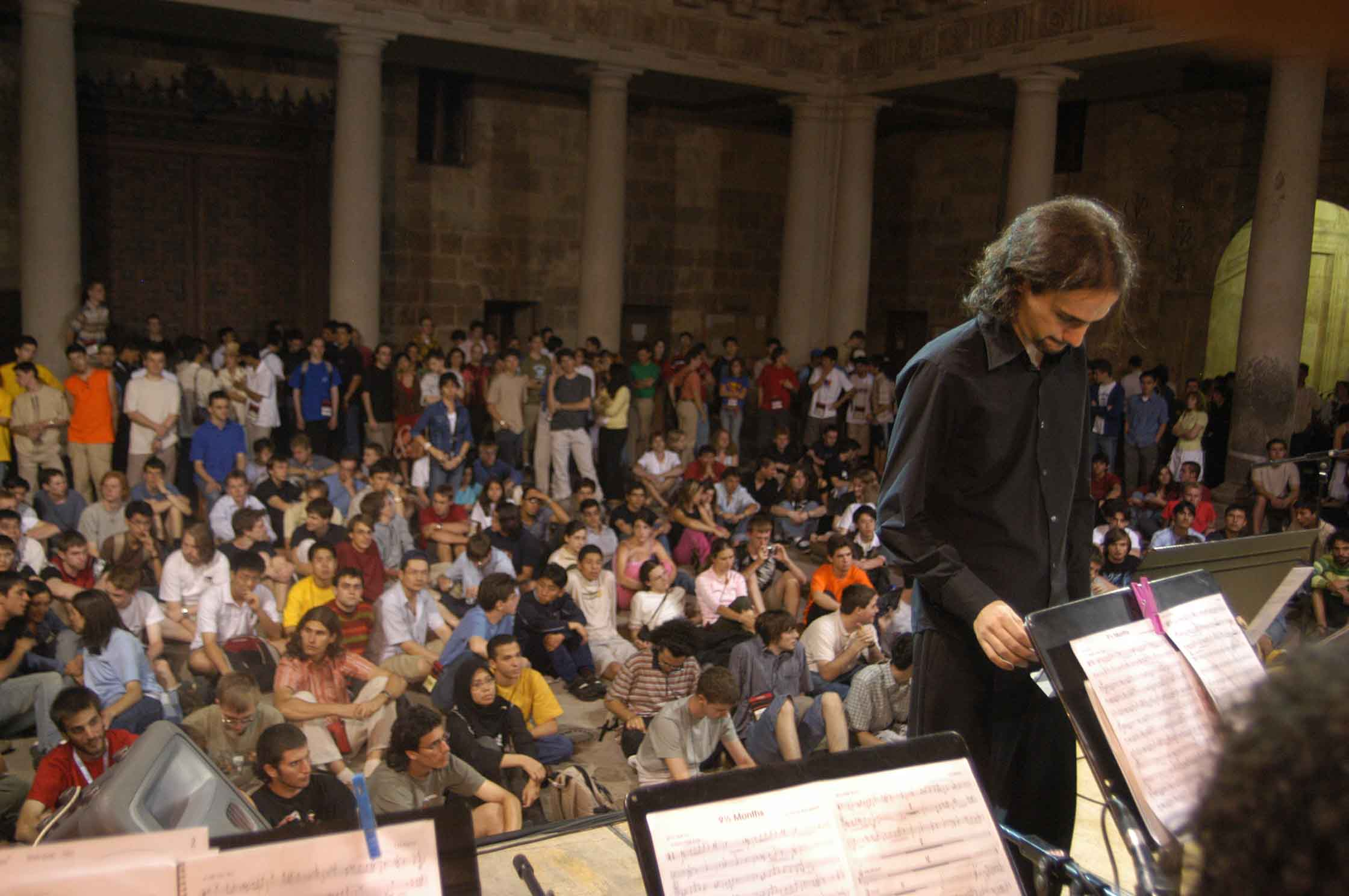 Concert in Palacwe